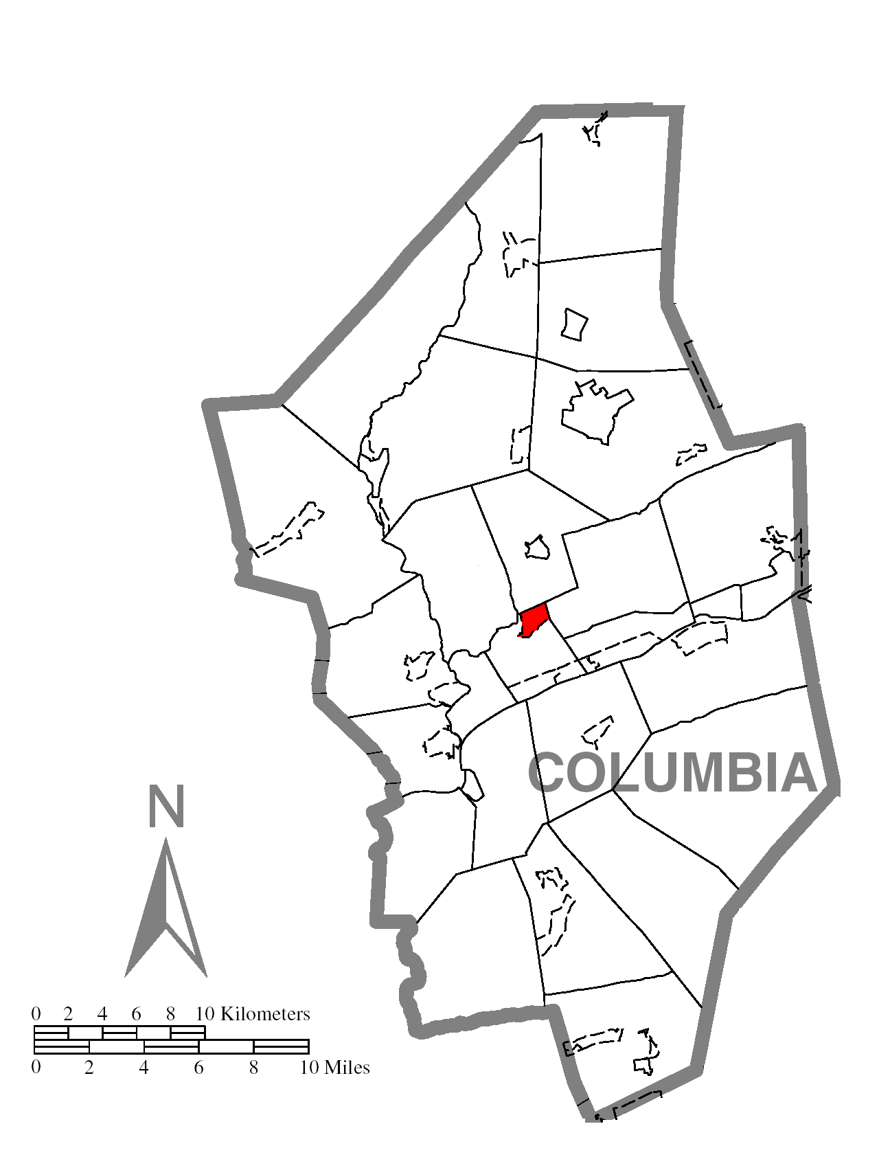 A map of Columbia County showing Lightstreet, Pennsylvania (alternate) highlighted on the map.